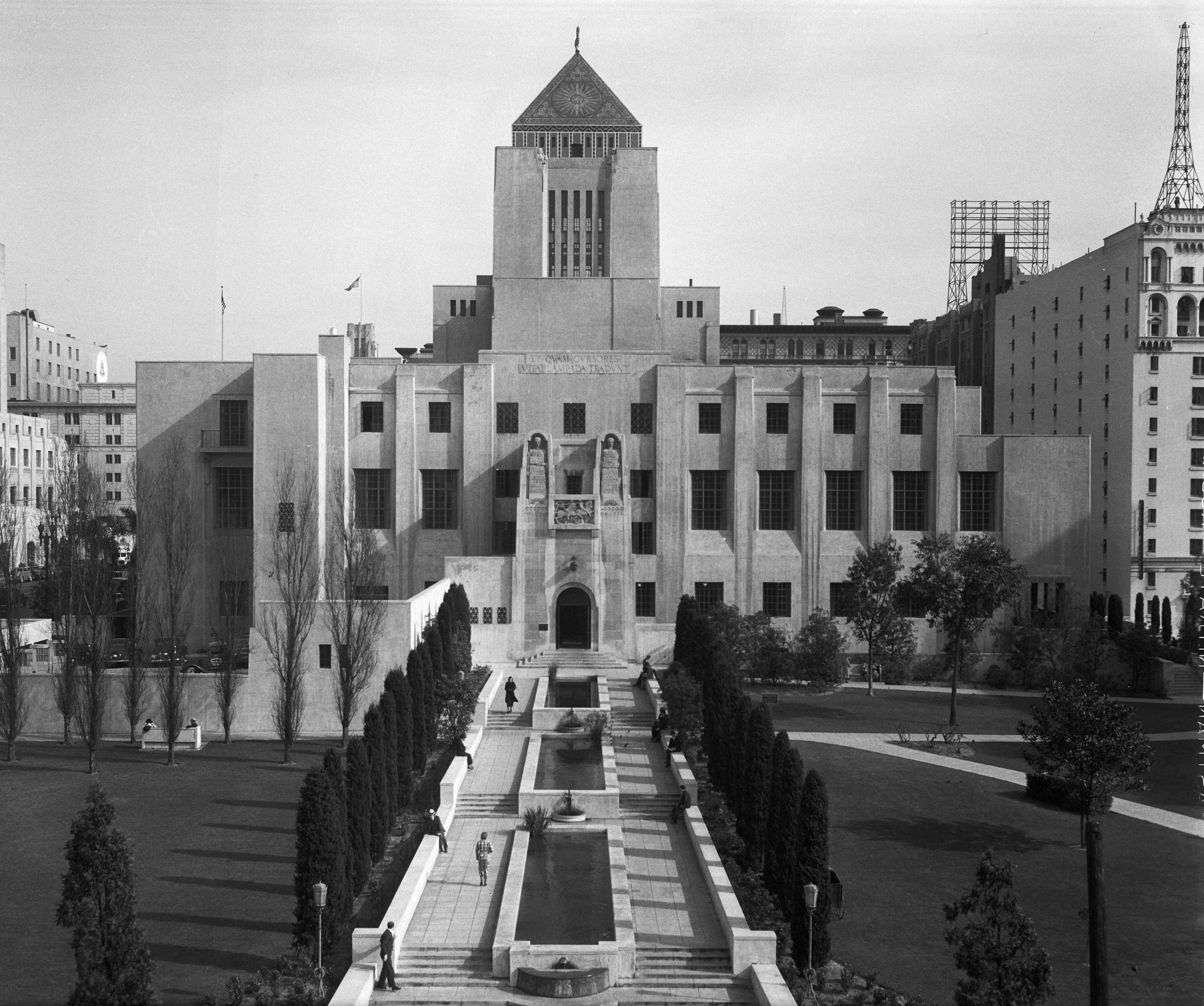 Title: Walkway and front façade of Los Angeles Public Library's Central Library, circa 1935